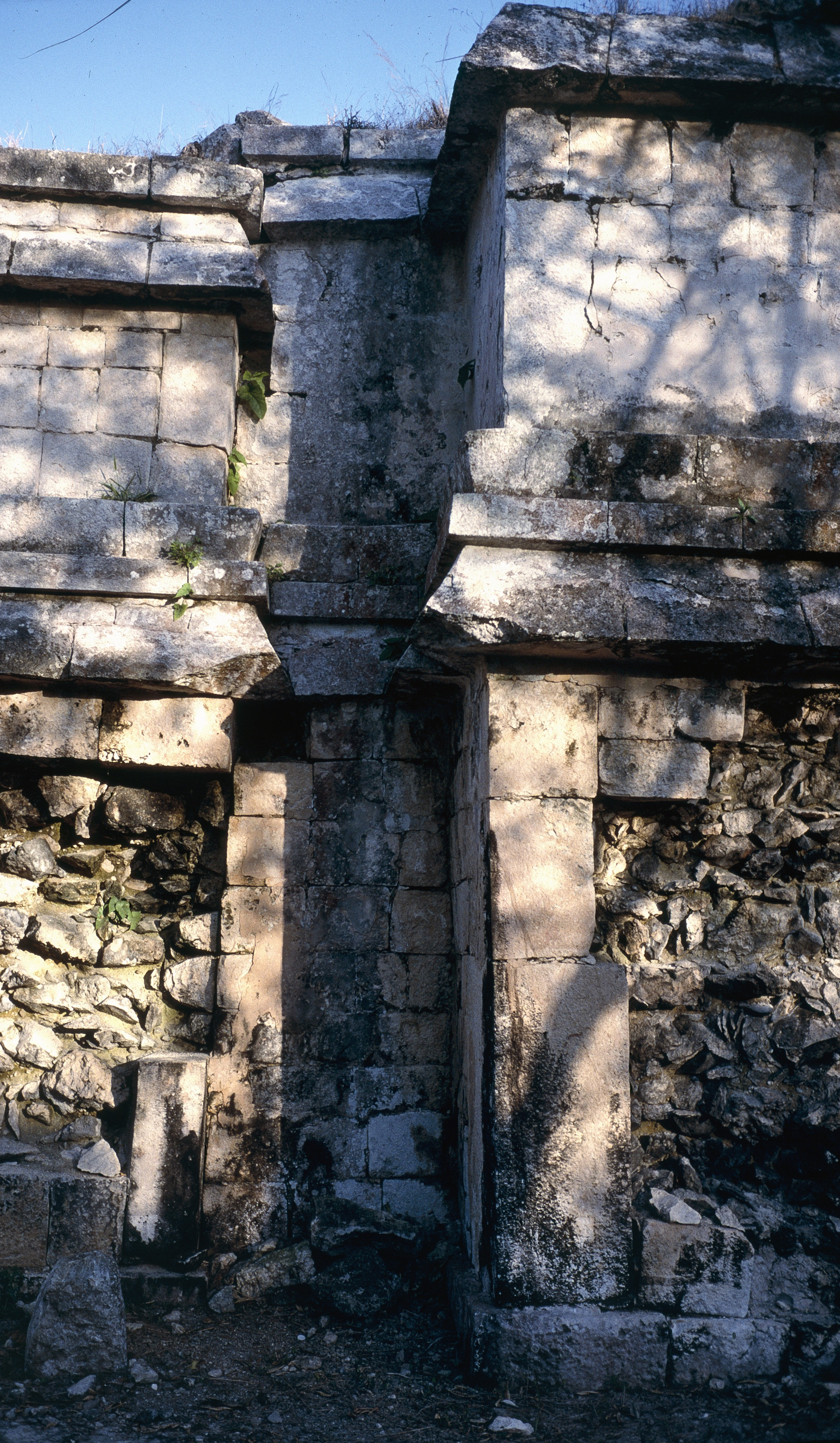 Chichén Itzá, Akab Dzib, joint of the two construction phases